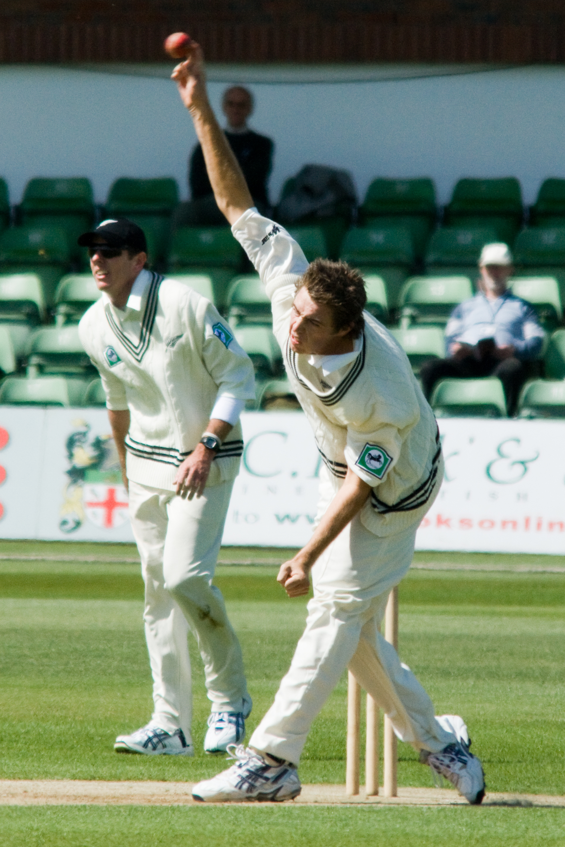 Tim Southee